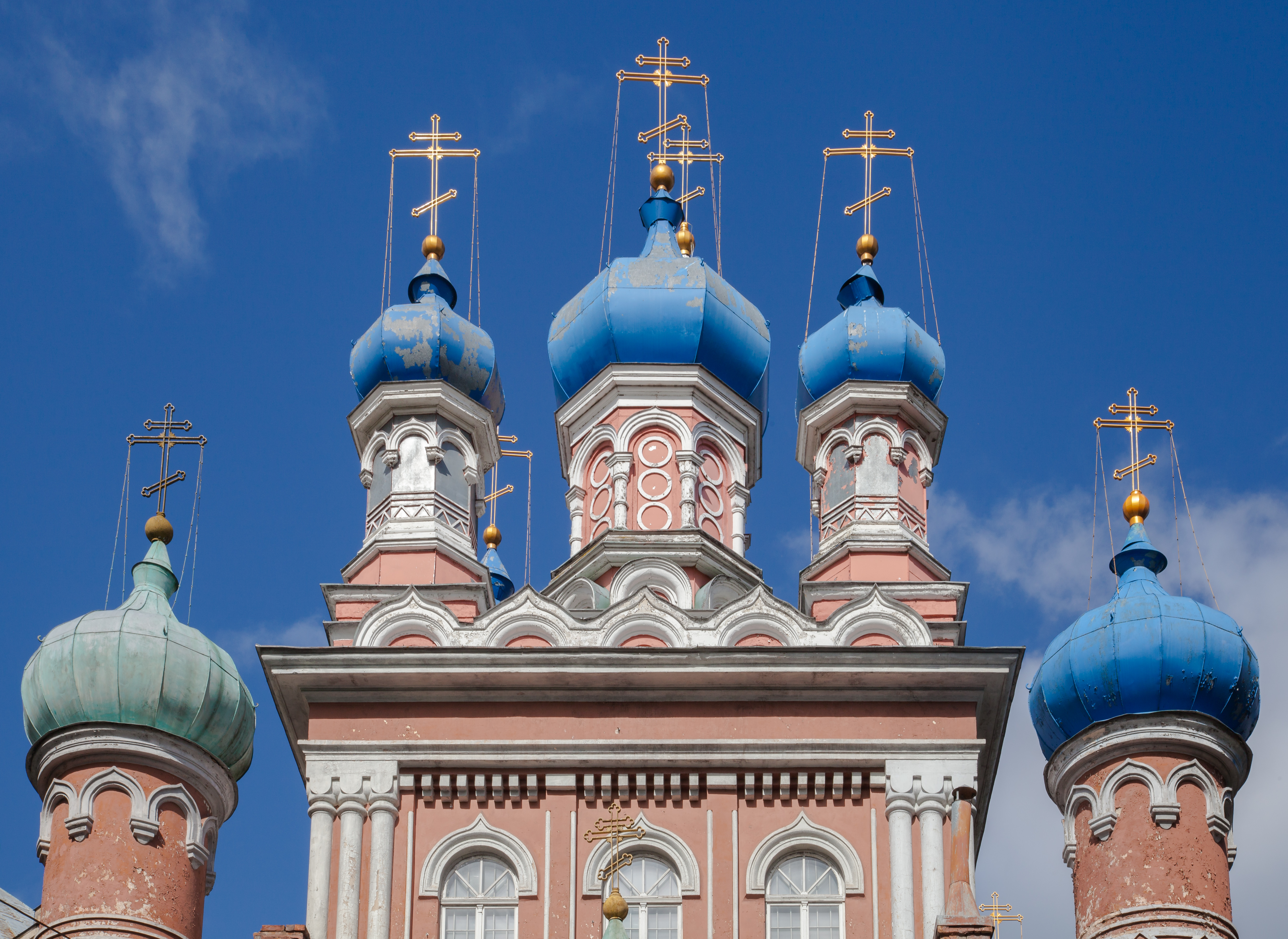 Holy Trinity Cathedral, Riga, Latvia